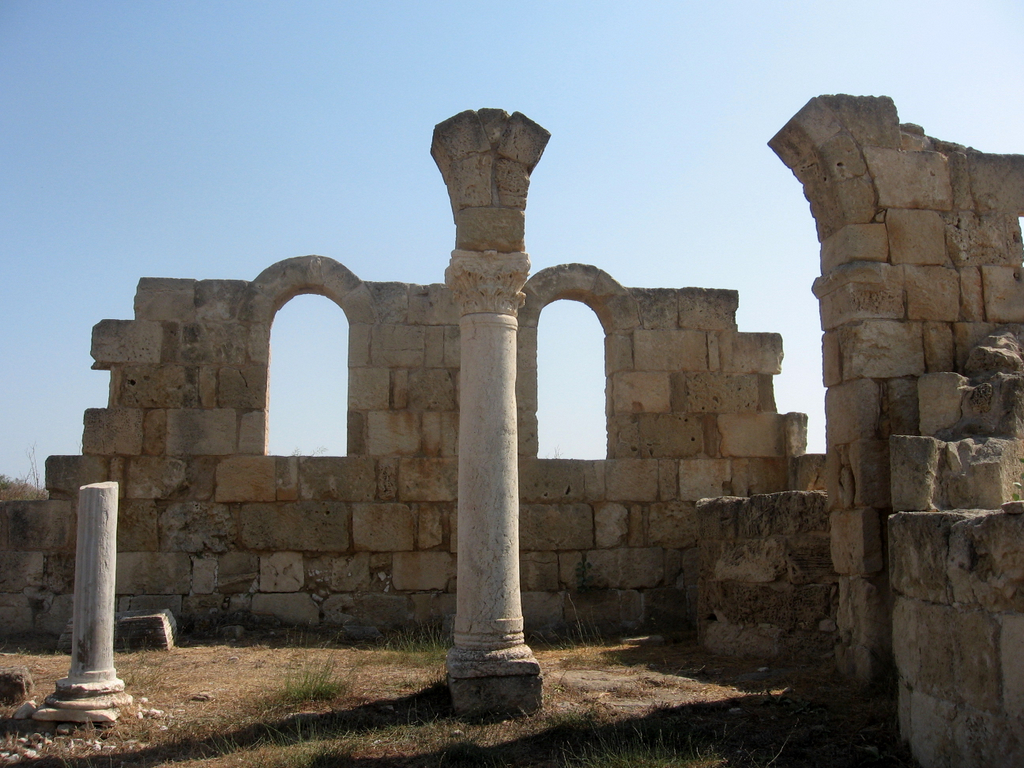 Basilica Kampanopetra ruins in Salamis, Cyprus.